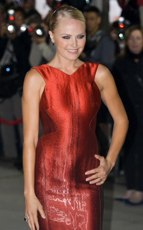 At the premiere of "The Bang Bang Club", directed by Steven Silver, during the Toronto International Film Festival, 2010.